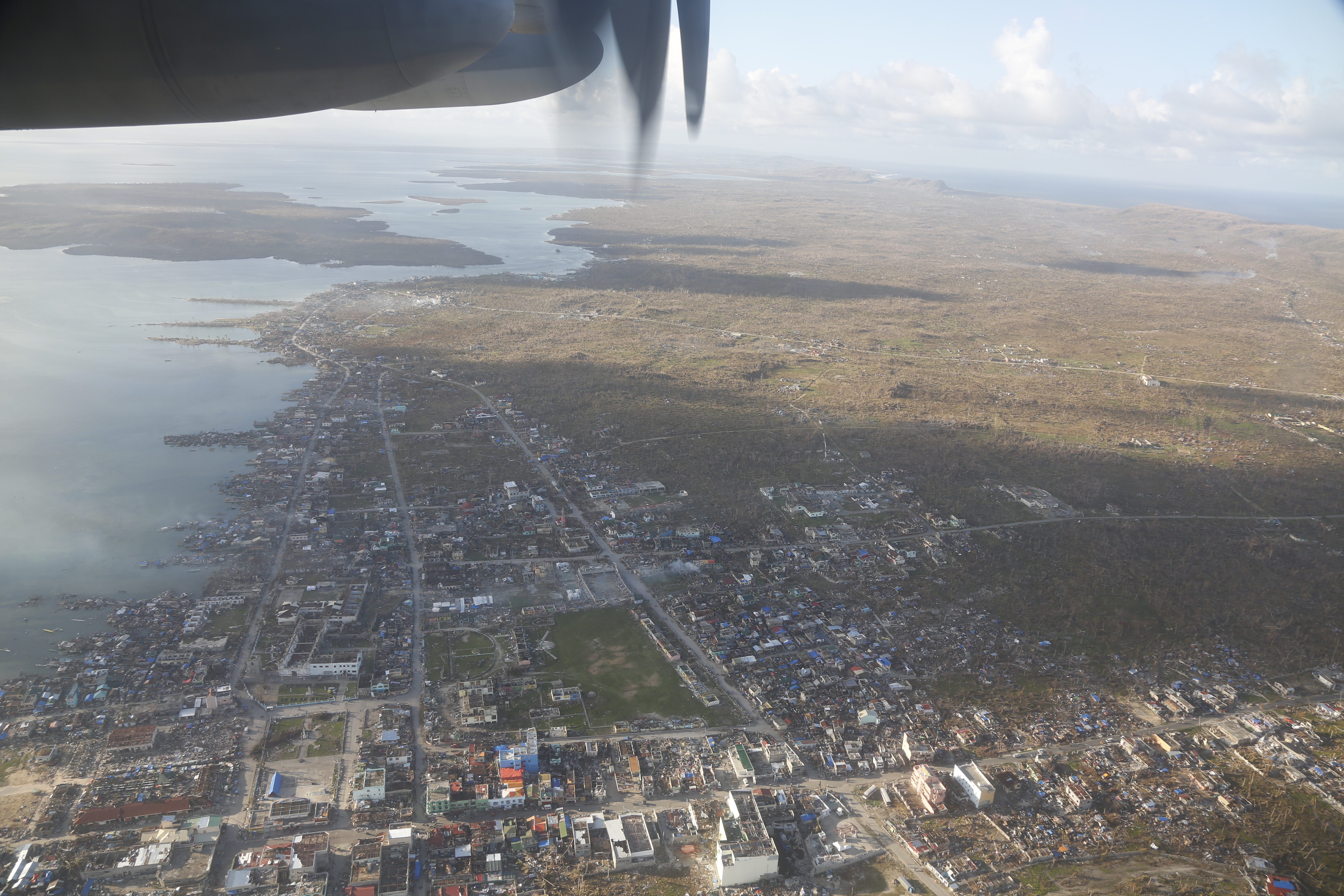 A KC-130J with Marine Aerial Refueler Transport Squadron 152 (VMGR-152), Marine Aircraft Group 36 (MAG-36), 1st Marine Aircraft Wing (1st MAW), flies over Guiuan, Eastern Samar, Republic of the Philippines, Nov. 18, 2013. VMGR-152, in support of Joint Task Force-505, conducted humanitarian assistance missions, as part of Operation Damayan, to deliver relief supplies and evacuate survivors affected by Typhoon Haiyan. (U.S. Marine Corps photo by Lance Cpl. Luis A. Rodriguez III)